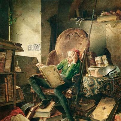 Don Quixote in the librarylabel QS:Lru,"Дон Кихот в библиотеке" label QS:Lde,"Don Quixote in der Bibliothek" label QS:Len,"Don Quixote in the library" label QS:Lpl,"Don Kichot w bibliotece" label QS:Lfr,"Don Quichotte dans la bibliothèque"